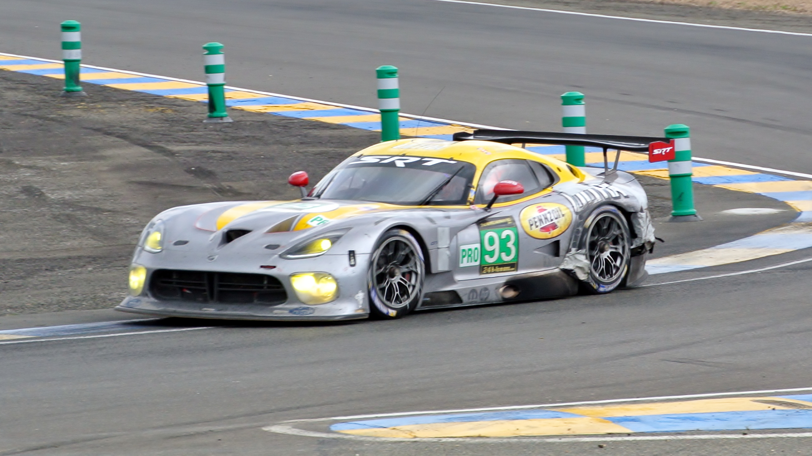 2013 SRT Viper GTS-R Le Mans LM GTE Pro Series Racing car